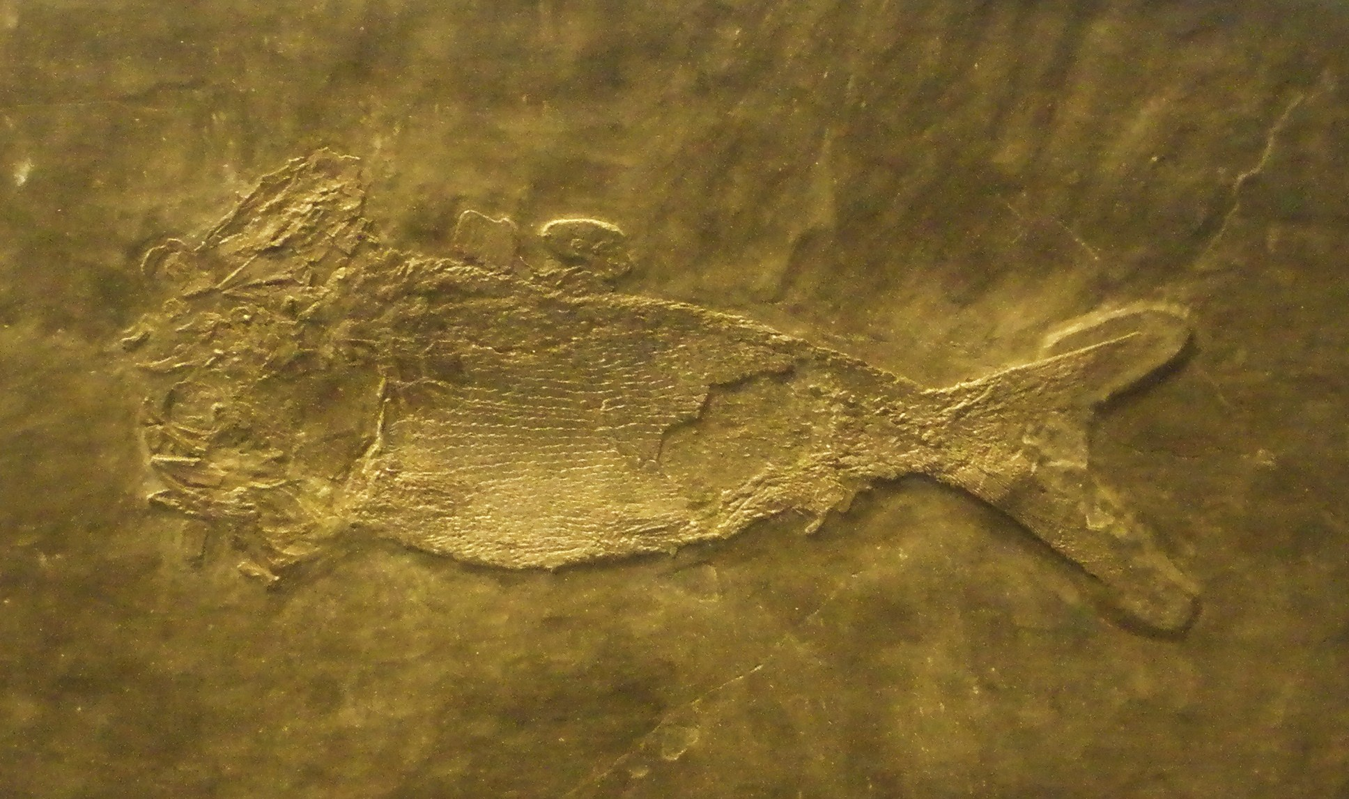 fossil ptycholepis